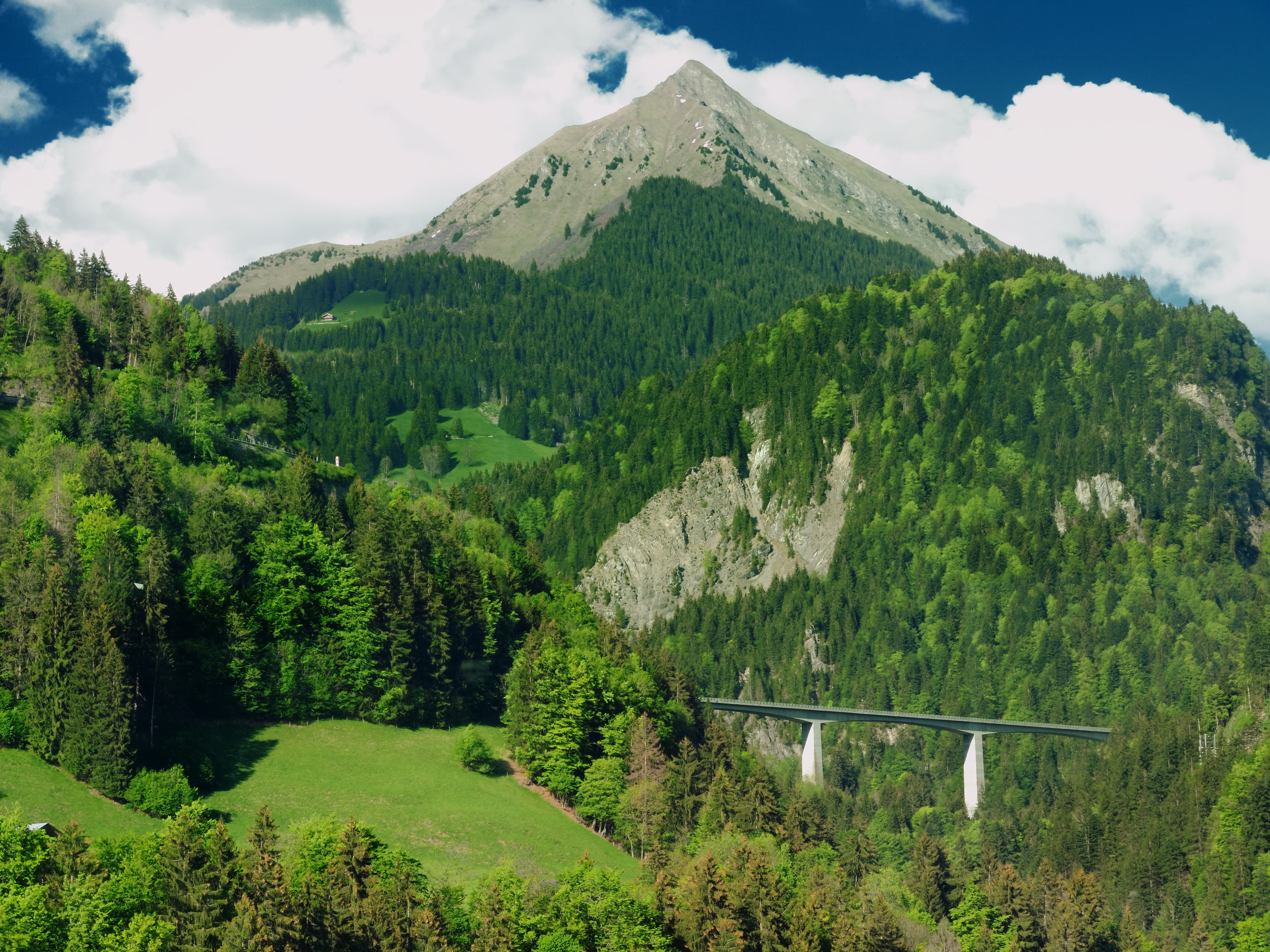 Pic Chaussy from Les Planches (Pont des Planches, view from the railway)